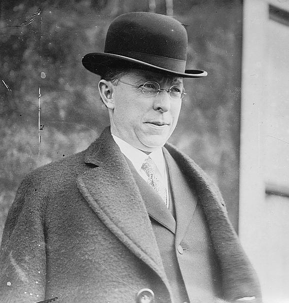 Martin Henry Glynn, (1871 - 1924), Governor of New York